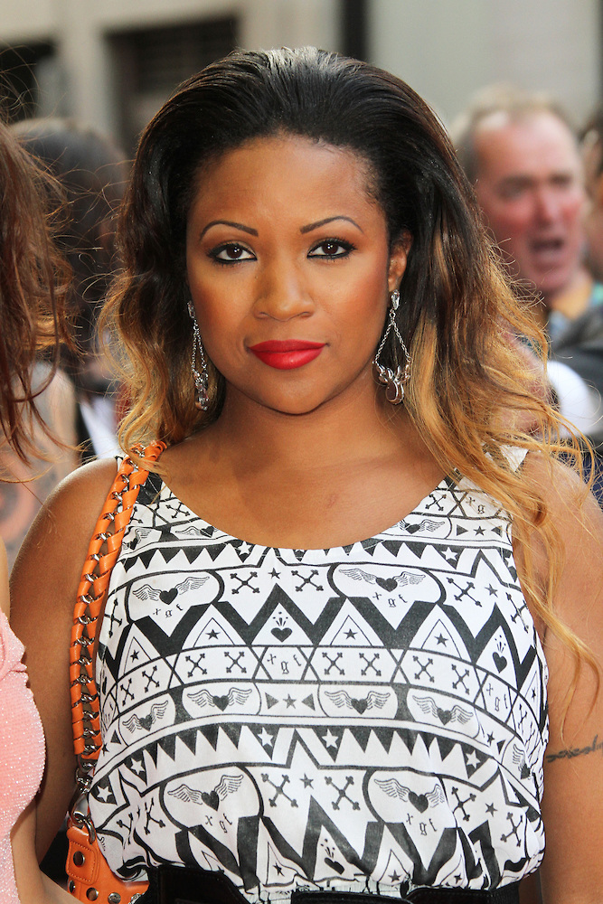 English singer Célena Cherry at the Bula Quo! UK film premiere, Odeon West End cinema, Leicester Square, London, UK on 1 July 2013.